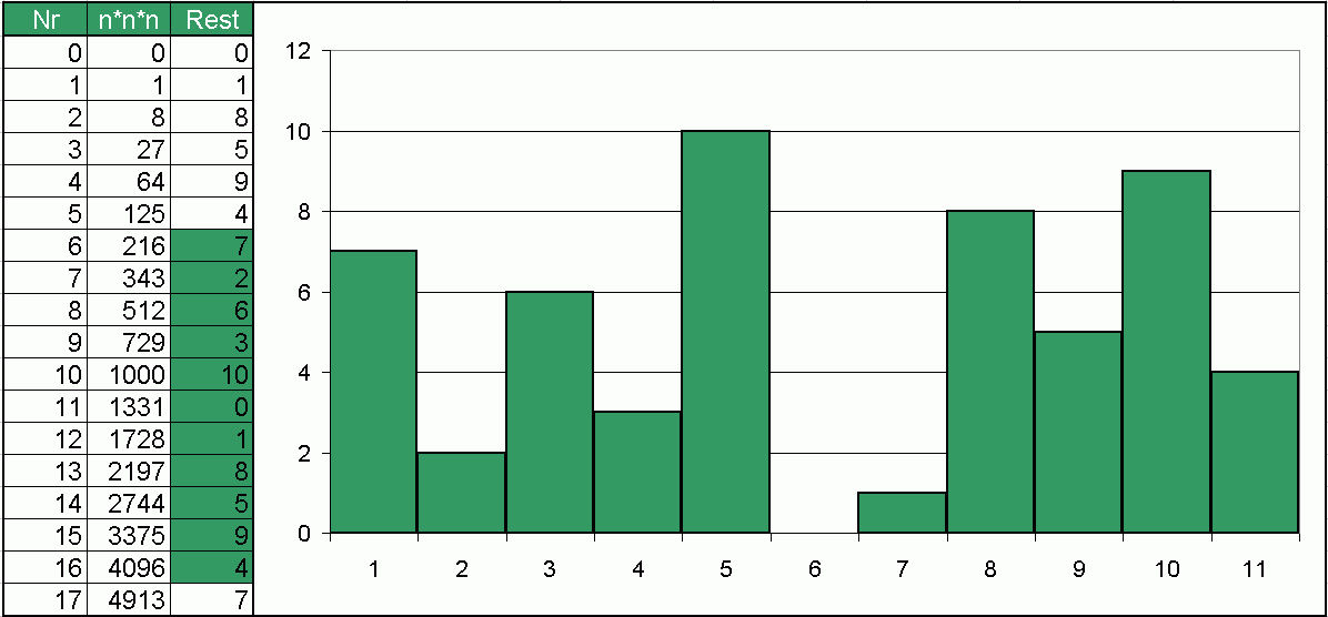 cubic residual diffusor - example with 11 wells